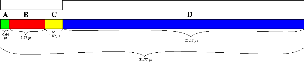 VGA 640x480 60 Hz horizontal timings.